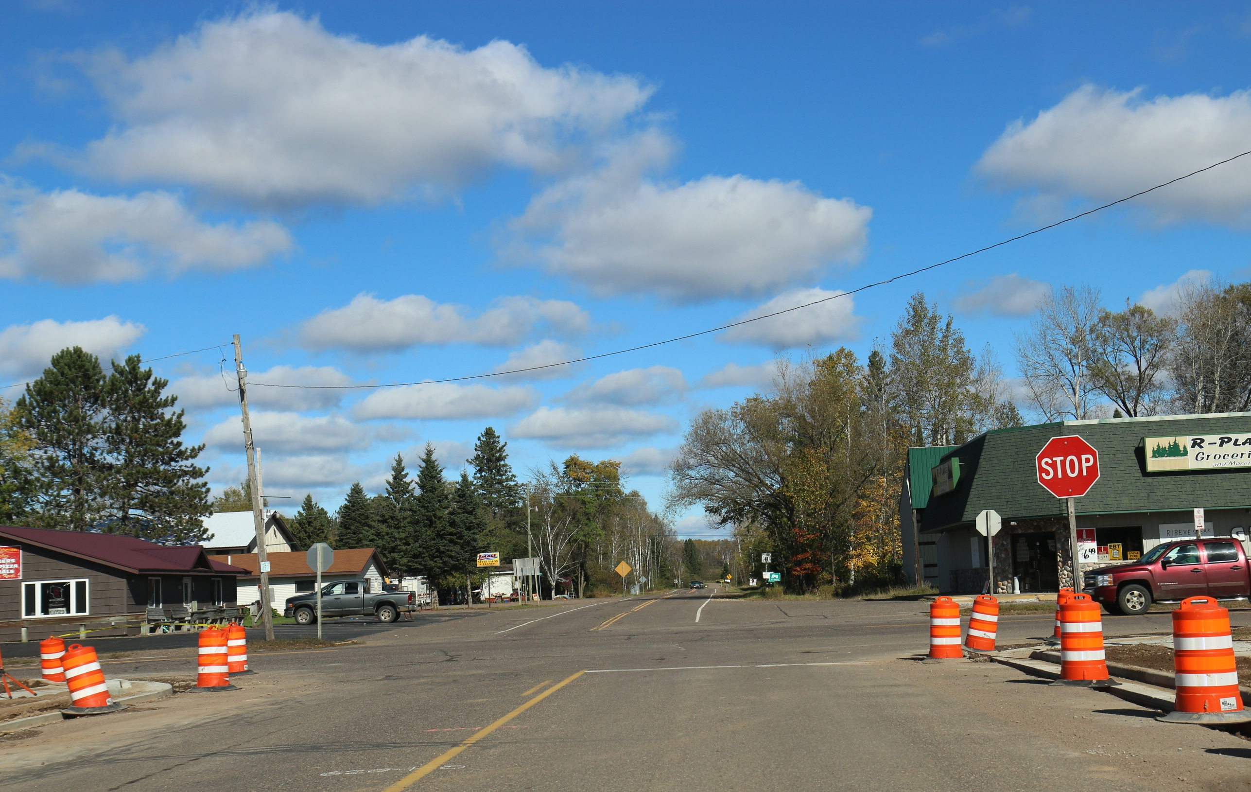 The north terminus of WIS40 in Radisson, Wisconsin at WIS70 / WIS27